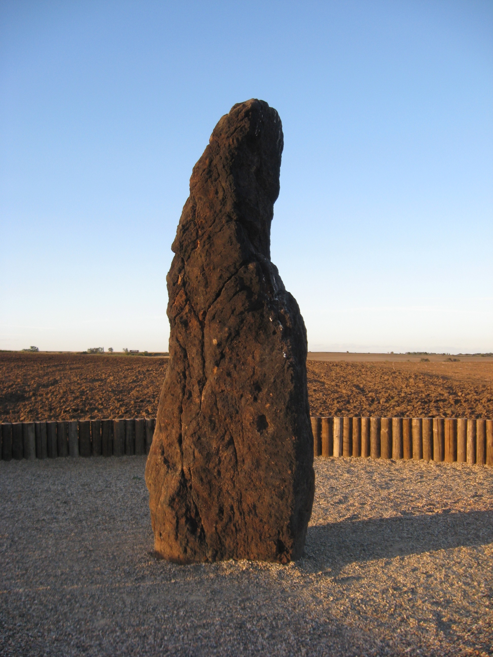 Klobuky's menhir